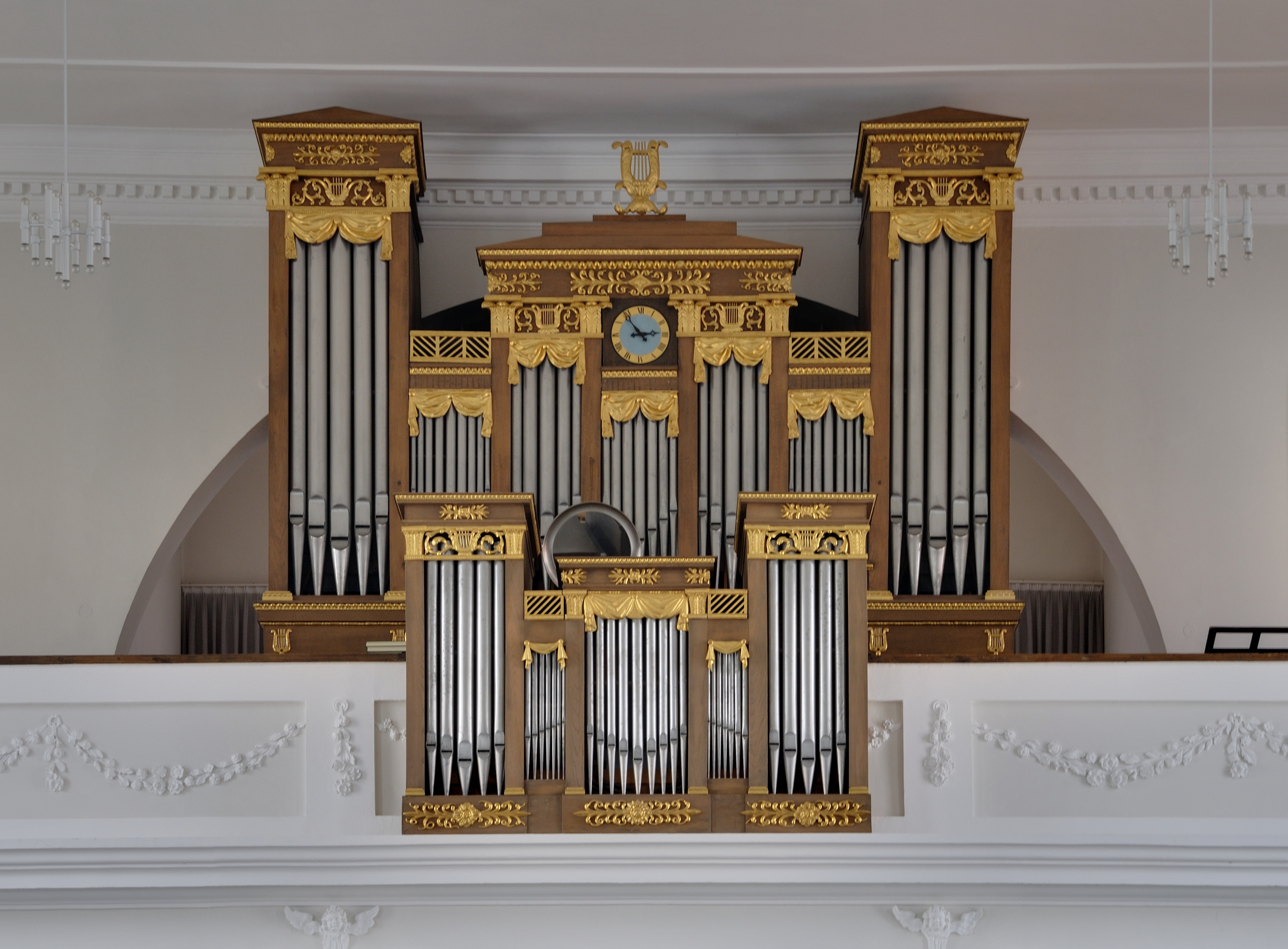 Church of Saint Fridolin: pipe organ